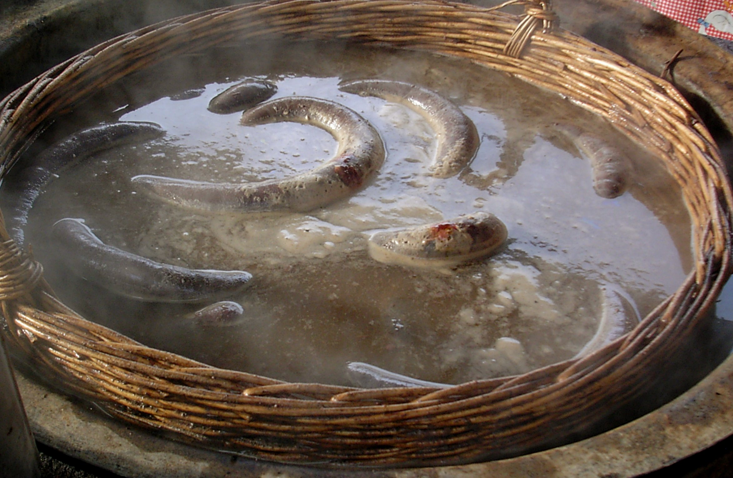 Cooking pudding: The black pudding is boiled after filling.